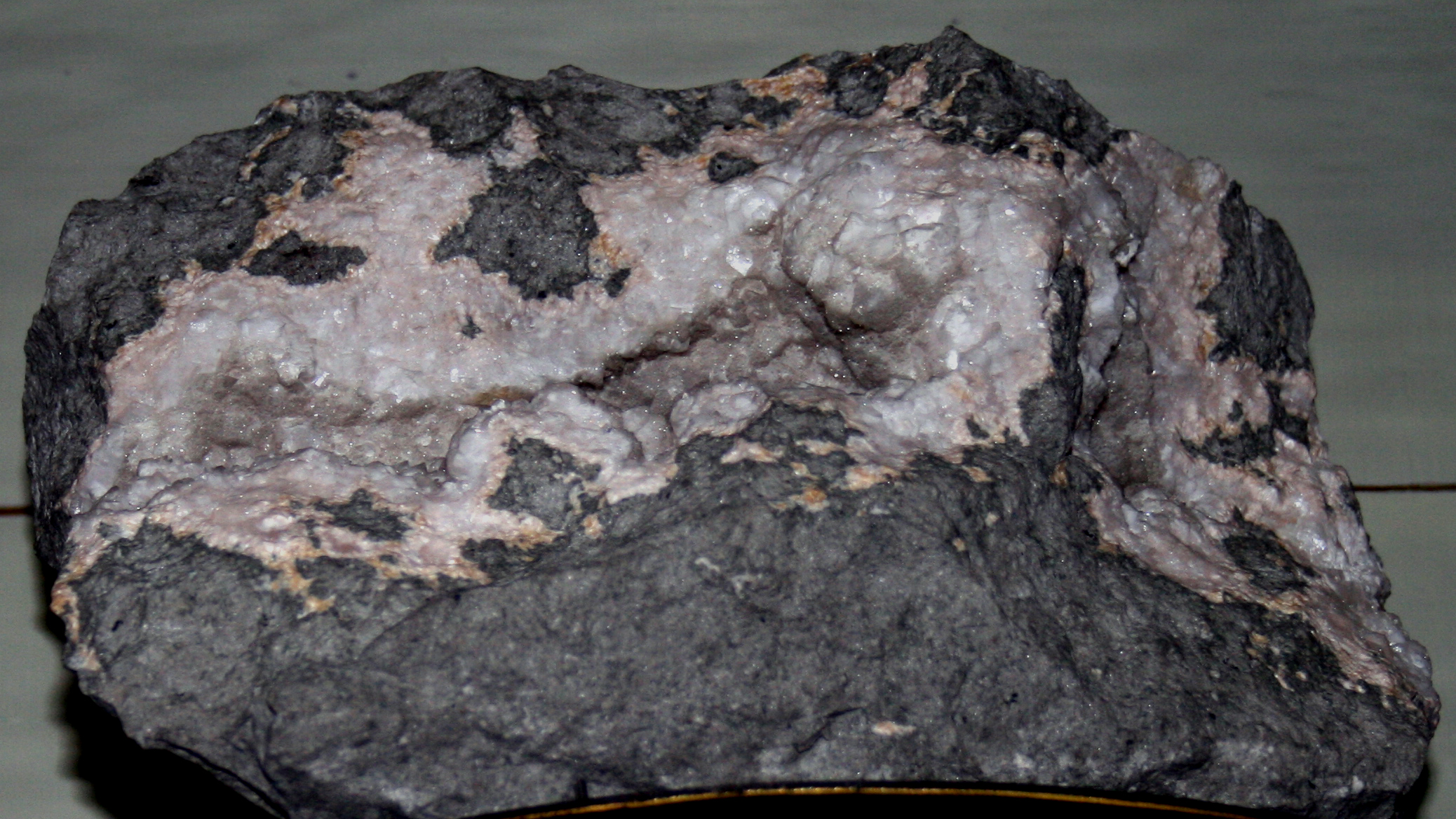 Mineral apophillite, chemical composition: KCa4[(F, OH)(Si 4O10)2] x 8 H2O, from collection of National Museum, Prague, Czech Republic, originally from Czech Republic